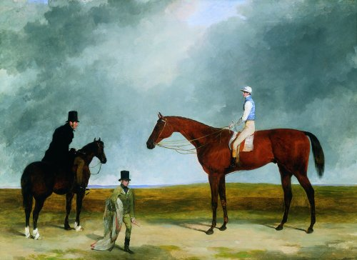 Bloomsbury, winner of 1839 Epsom Derby. Painting by Harry Hall (1814-1882). Artist dead for 130 years.